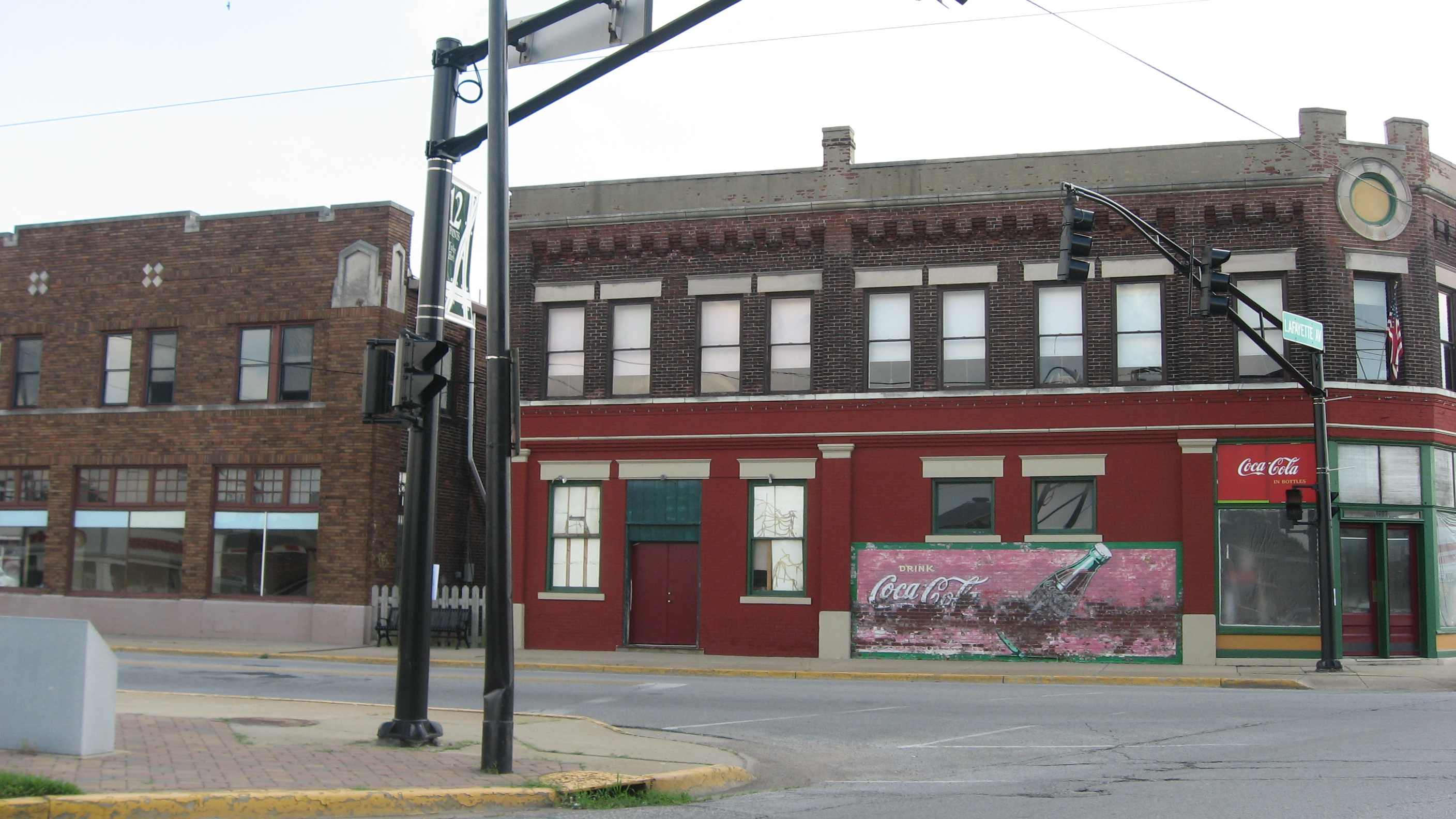 Buildings on the southern side of Maple Avenue in the Twelve Points neighborhood of Terre Haute, Indiana, United States. This block is part of the Twelve Points Historic District, a historic district that is listed on the National Register of Historic Places.